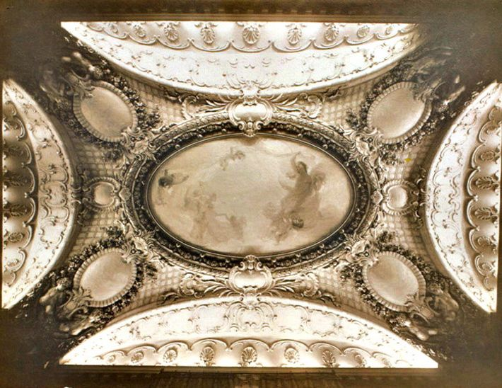 Detail of Reception Room Ceiling, Charles Rudolph Hosmer House, 3630 Sir-William-Osler Promenade (Drummond Street), Montreal, Quebec, Canada.